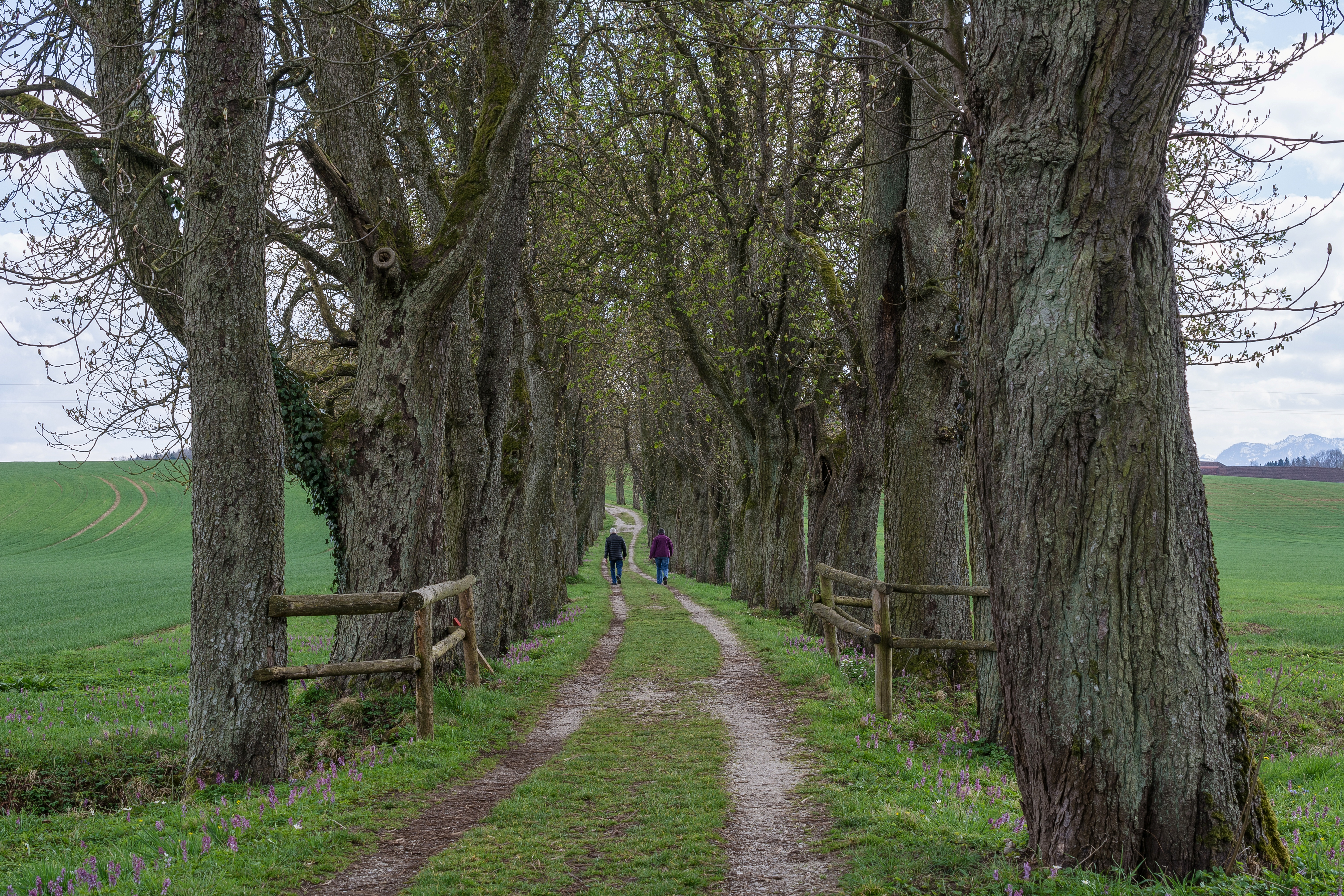 Close to the parish church of Bad Wimsbach-Neydharting there is a double-row alley of horse chestnut trees, probably planted in 1893 and protected as natural monument of Upper Austria. This media shows the natural monument in Upper Austria with the ID nd058.